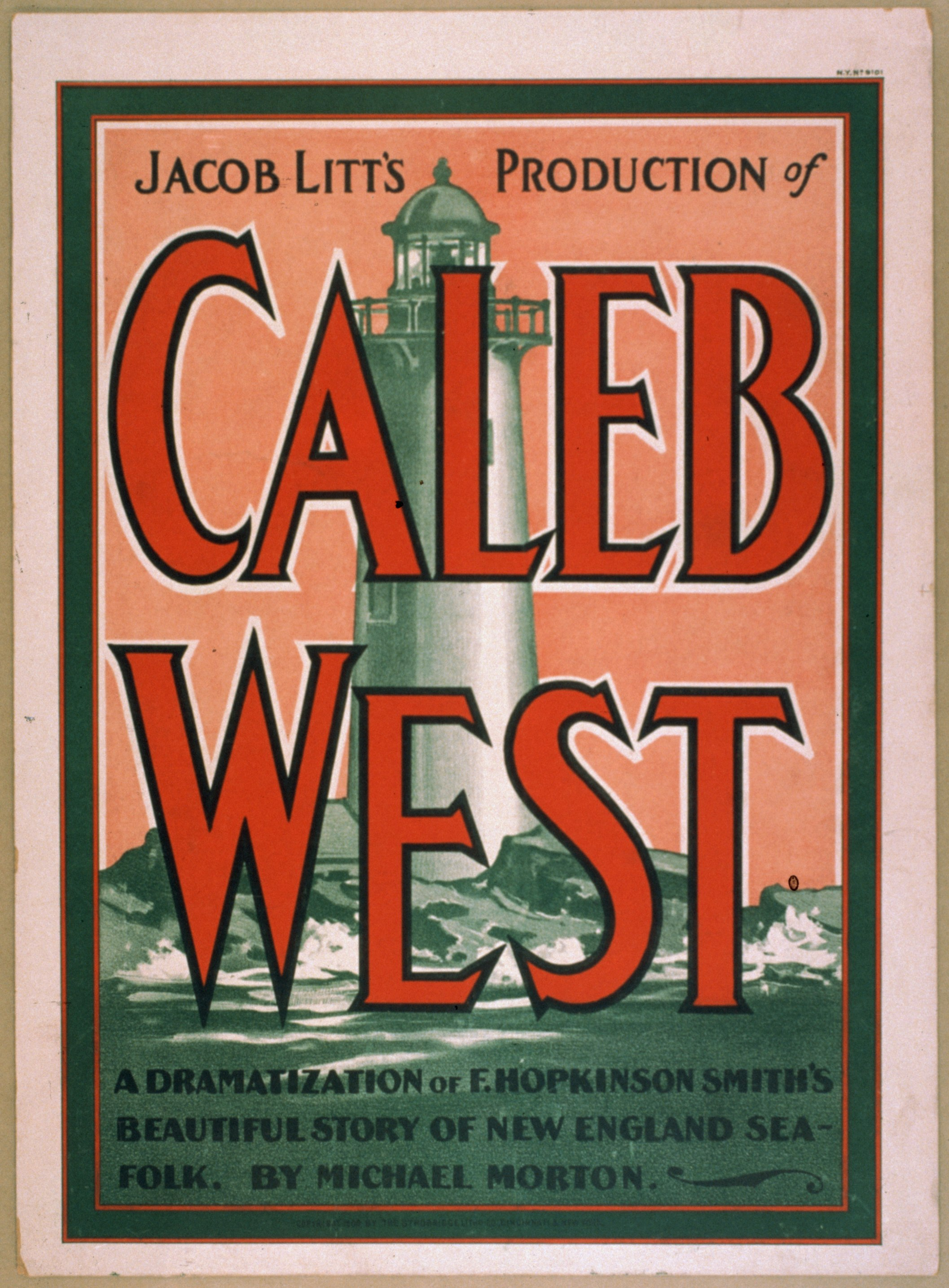 Title: Jacob Litt's production of Caleb West a dramatization of F. Hopkinson Smith's beautiful story of New England sea-folk by Michael Morton. Abstract: 1 print : color lithograph ; sheet 45 x 33 cm. (poster format)